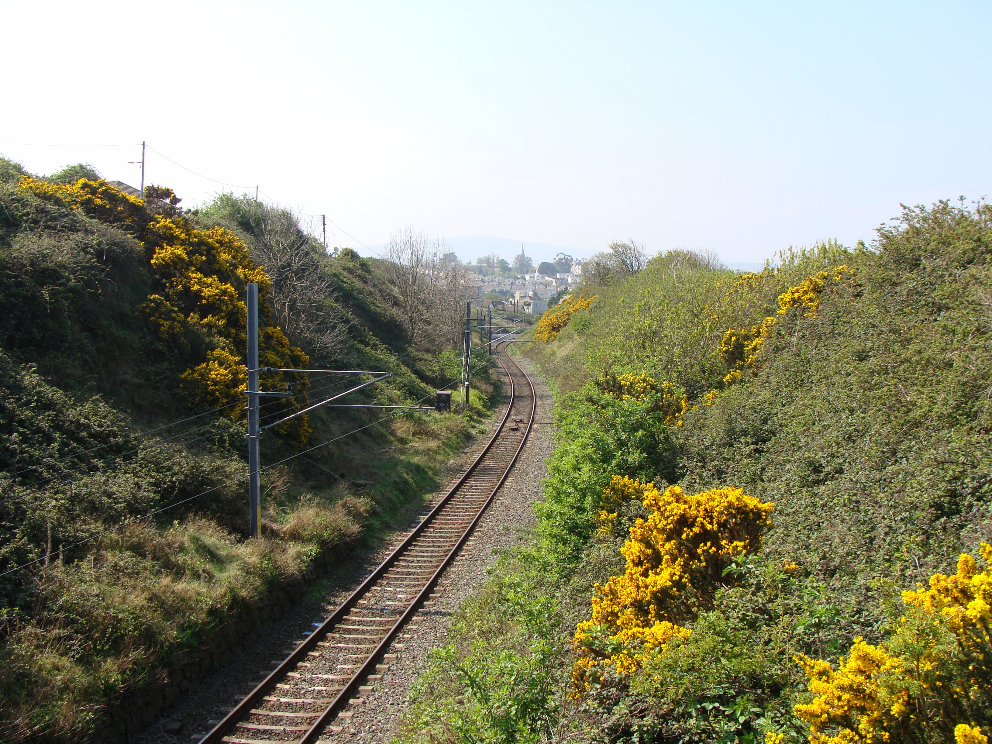 DART rail way, Bray Head, Bray, Co. Wicklow, Ireland.